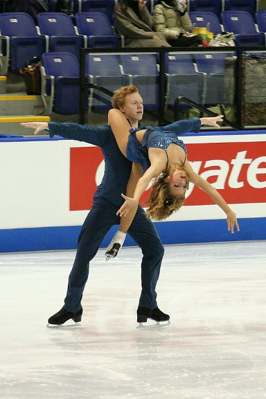 Trina Pratt & Todd Gilles perform a lift at the 2006 Skate Canada International.